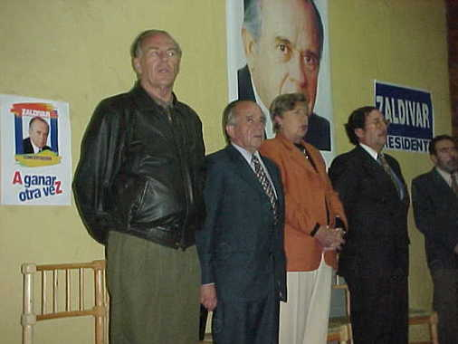 Andrés Zaldívar junto a Jorge Lavandero haciendo campaña por las primarias de la Concertación de 1999.